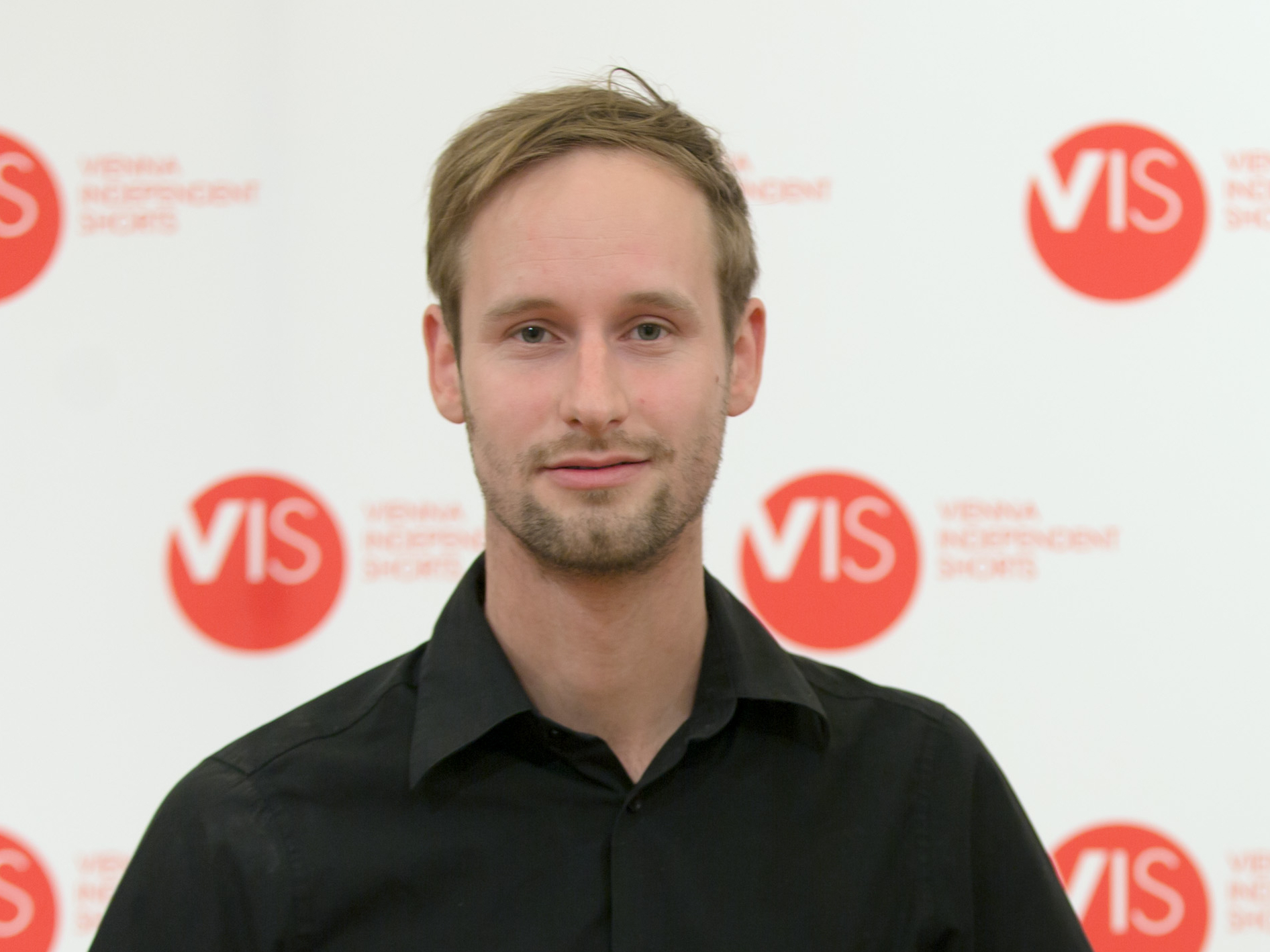 Christoph Schwarz, award winner at the short film festival Vienna Independent Shorts 2015; Metro Kinokulturhaus in Vienna, Austria.